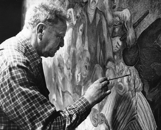 Torsten Billman renovating his boun fresco Development of Society in Gävle 1983.